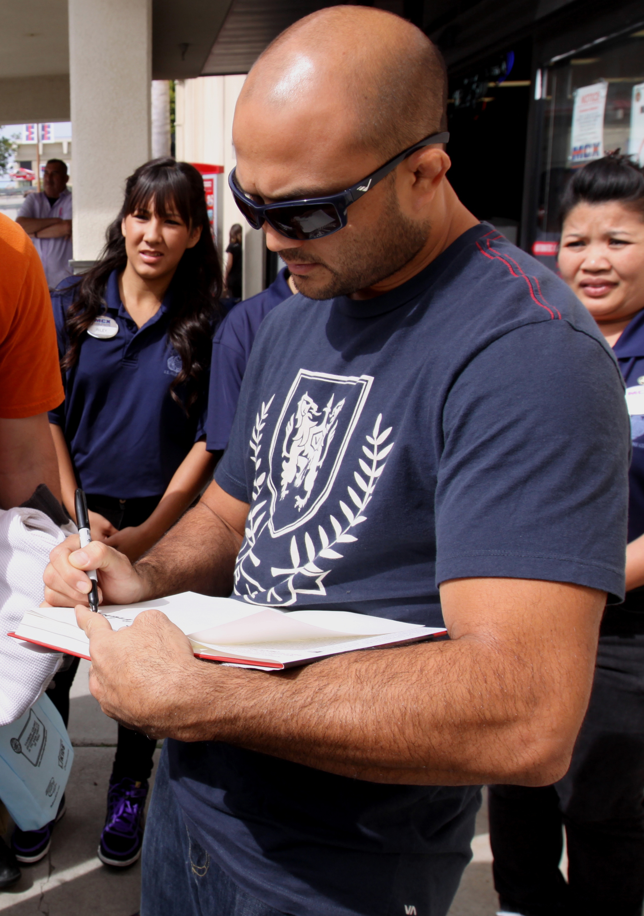 Former two-time Ultimate Fighting Champion, B.J. Penn, autographs his new autobiography, “Why I Fight,” for Staff Sgt. Mathew P. Kollhoff, drill instructor, Marine Corps Recruit Depot San Diego, and his six-year-old son at Camp Pendleton’s Country Store, April 17. The American mixed-martial artist signed UFC memorabilia and posed in photos for hundreds of military members and their families during his visit. (the extract from an original text)